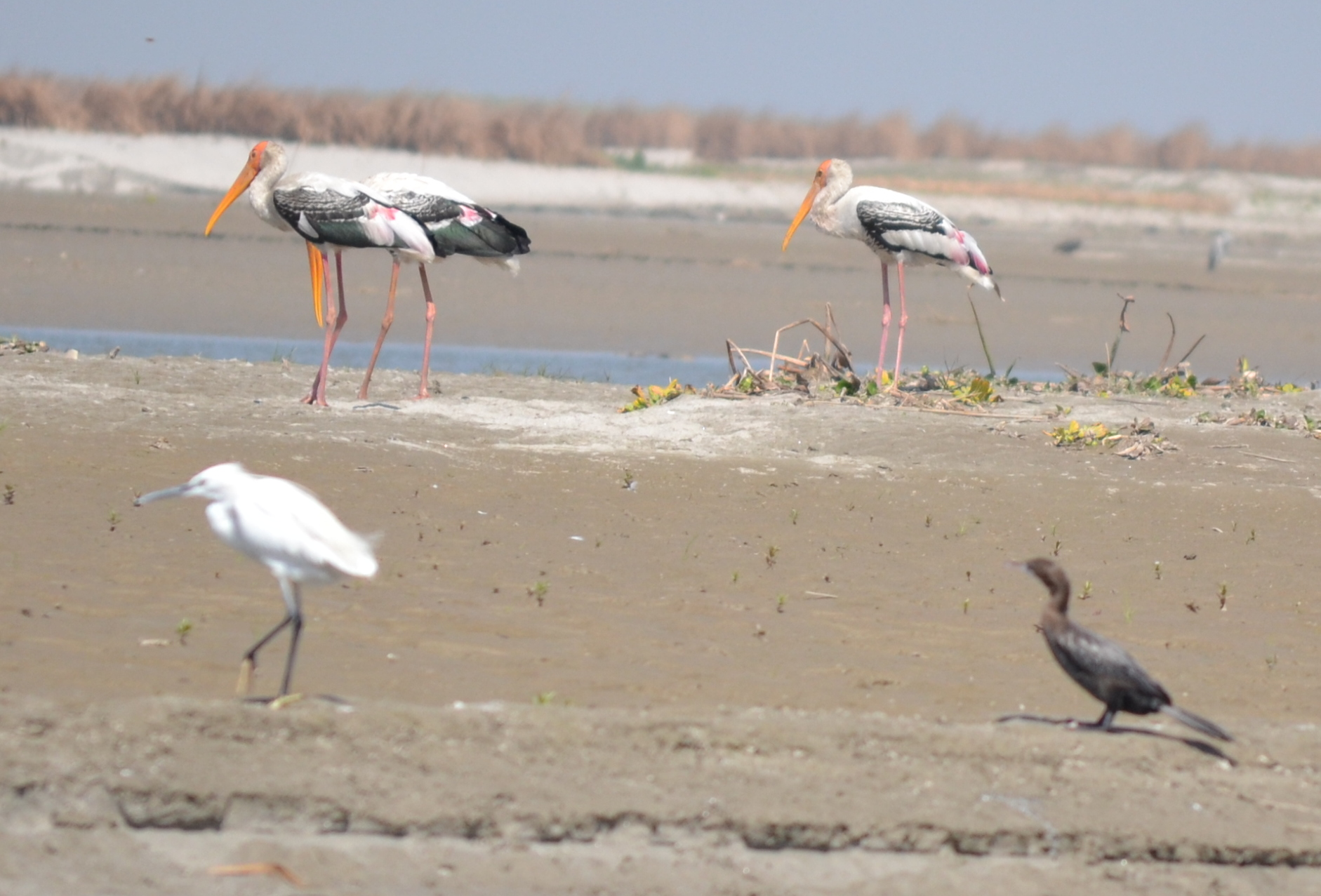 The Ganga in Hastinapur Wildlife Sanctuary in Meerut UP.